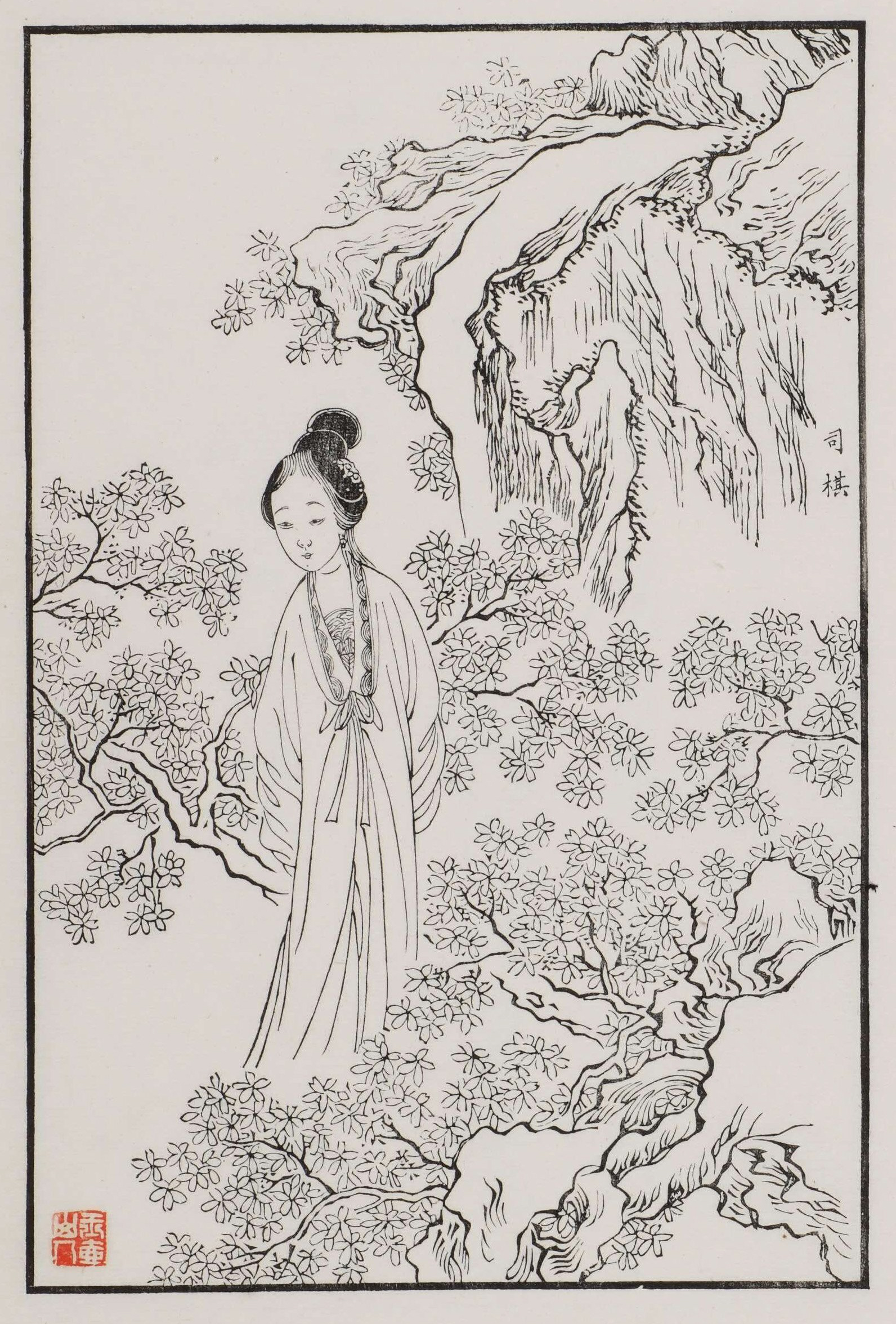 Sīqí, singer